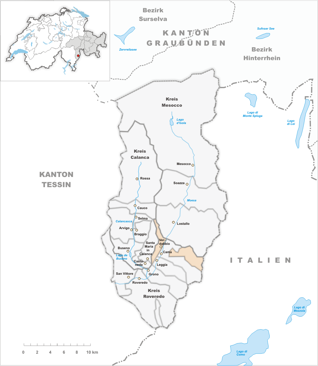 Municipality Verdabbio